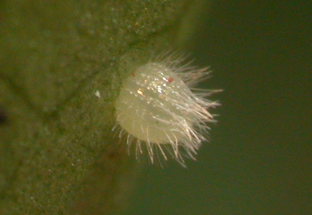 Ariadne merione Common Castor butterfly egg